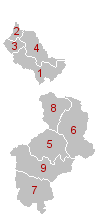 map of German speaking community of Belgium